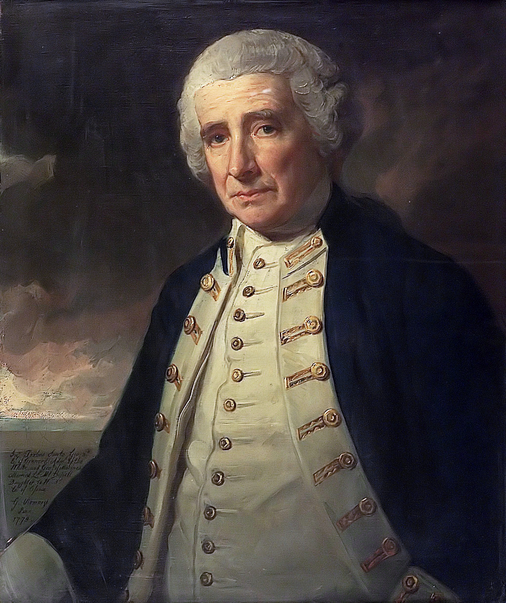 A half-length portrait of John Forbes slightly to left, in flag officer's undress uniform, circa 1774-83. He wears a white wig. He supported Mathews during and after the Battle of Toulon 1744. He served as a member of the Admiralty Board in 1757 and was the only one who would not ratify the sentence of death of Byng. He became General of the Marines and followed Hawke as the Admiral of the Fleet in 1781 but was prevented by ill-health from taking any active part in affairs. The artist was an important portrait painter of the late-18th century, generally ranked third after Joshua Reynolds and Thomas Gainsborough. He was in Paris in 1764 and in 1773 moved to Italy for two years, where he became interested in history paintings in the elevated and élitist 'Grand Manner'. This developed into improving upon nature and the pursuit of perfect form. At its best his work demonstrated refinement, sensitivity and elegance, although it could also be repetitive and monotonous. As a society painter he typified late-18th-century English artists who, compelled by the conditions of patronage to spend their time in producing portraits, could only aspire to imaginative and ideal painting. By 1780 Romney's portraits, according to Horace Walpole, were 'in great vogue' and he worked in an increasingly neo-classical style. Signed and dated 'G Romney Pinx. 1778'.